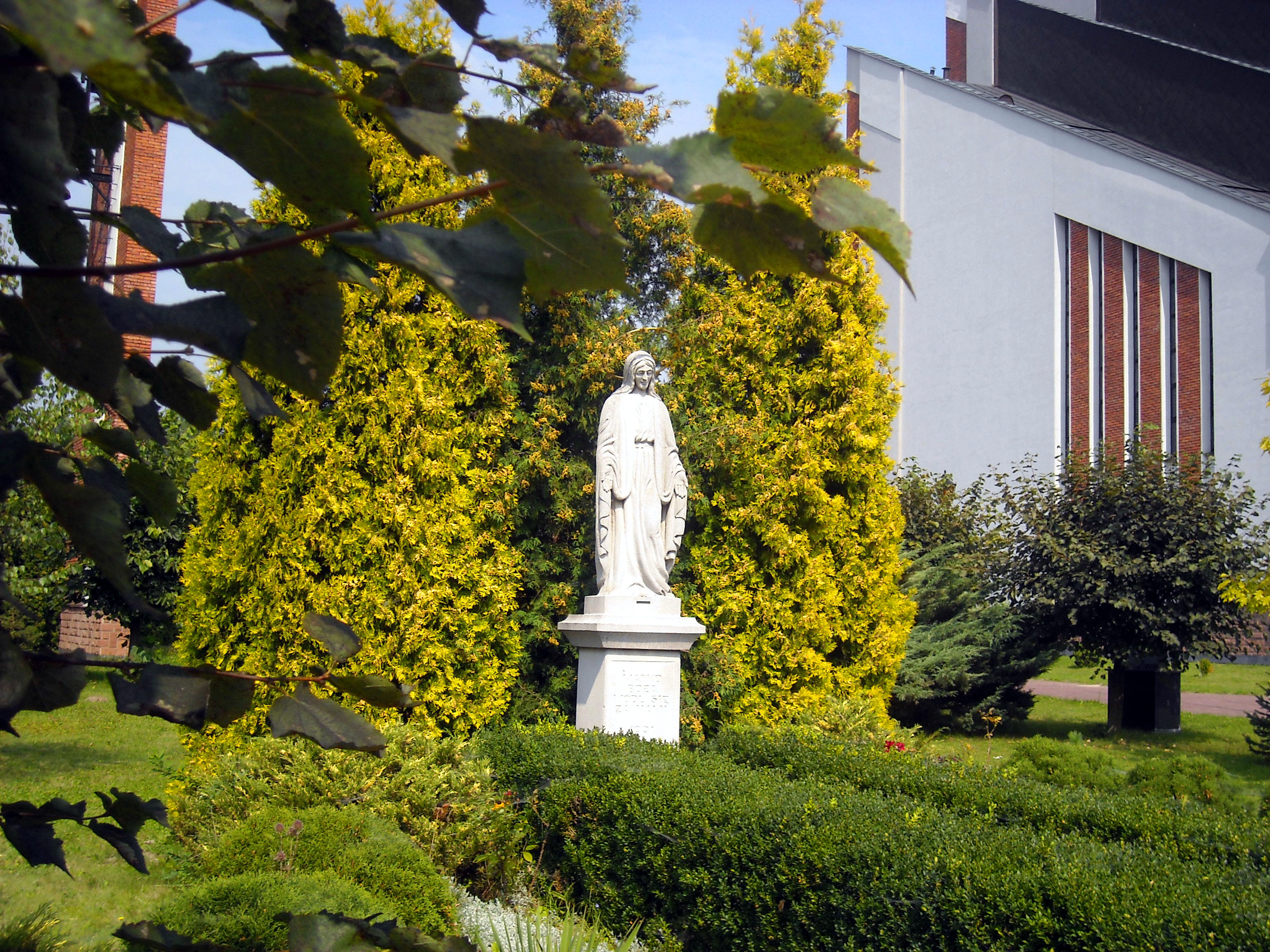 Statue of Mary of The Catholic Church of the Mercy of God in the Wrotków district